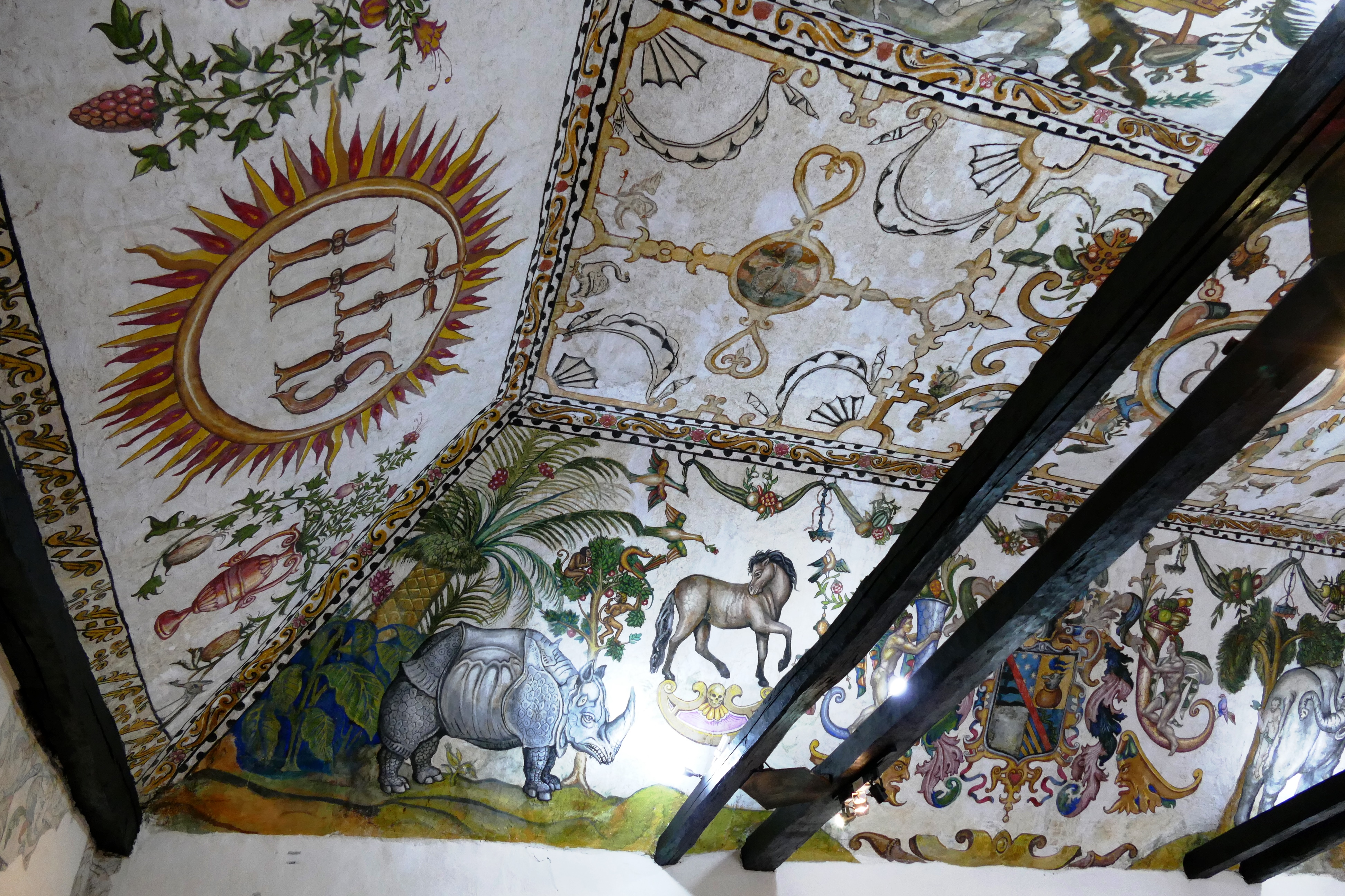 Once home to scribe Juan de Vargas, Casa de Don Juan de Vargas is another splendid 16th-century residence, even richer than Suarez Rendon's one. It also has been converted into a museum and has a collection of colonial artworks on display. Here the most captivating features are the ceilings**, covered with eclectic paintings, jewel of the town's heritage.